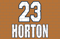 Recreation of how it looks at Comerica